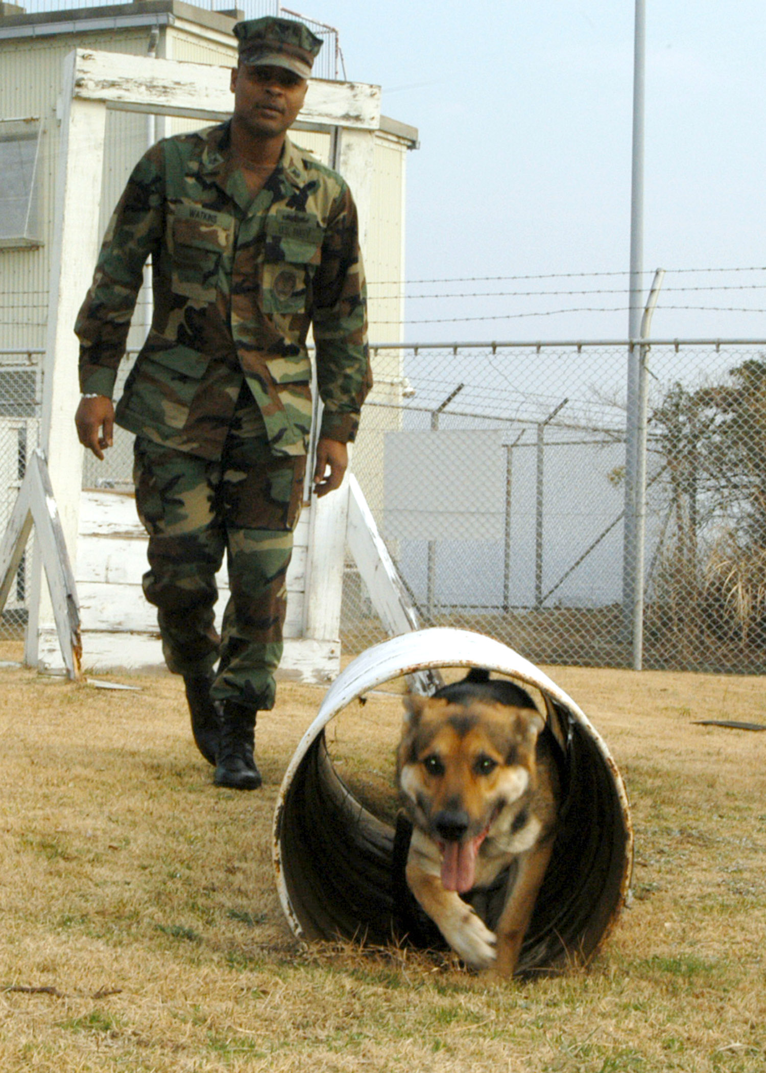 Yokosuka, Japan (Feb. 23, 2006) - Ammo, a 6-year-old police dog, commanded by Master-At-Arms 1st Class Marcus Watkins, crawls through a pipe at an obstacle course onboard Commander, Fleet Activities Yokosuka. The working dogs run the obstacle course to keep in shape and to prepare for real life scenarios. U.S. Navy photo by Photographer's Mate 2nd Class Chantel M. Clayton (RELEASED)